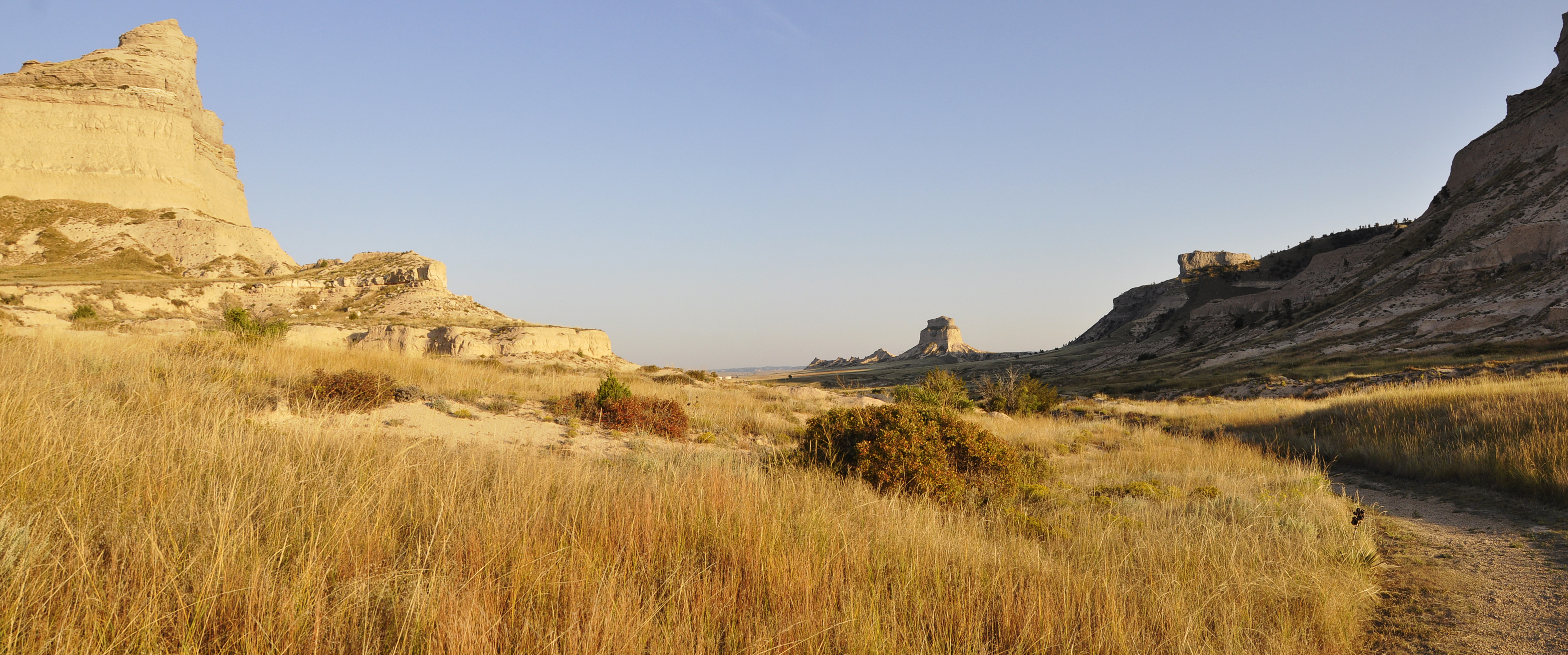 Scotts Bluff National Monument